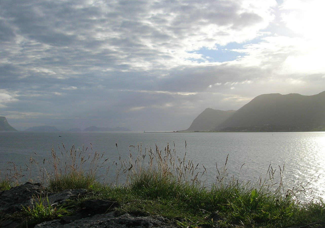 View from the island Heissa in Ålesund. To the right the island Godøy with Hogsteinen lighthouse. To the left of the lighthouse the island Runde. The island to the very left is Hareidlandet.